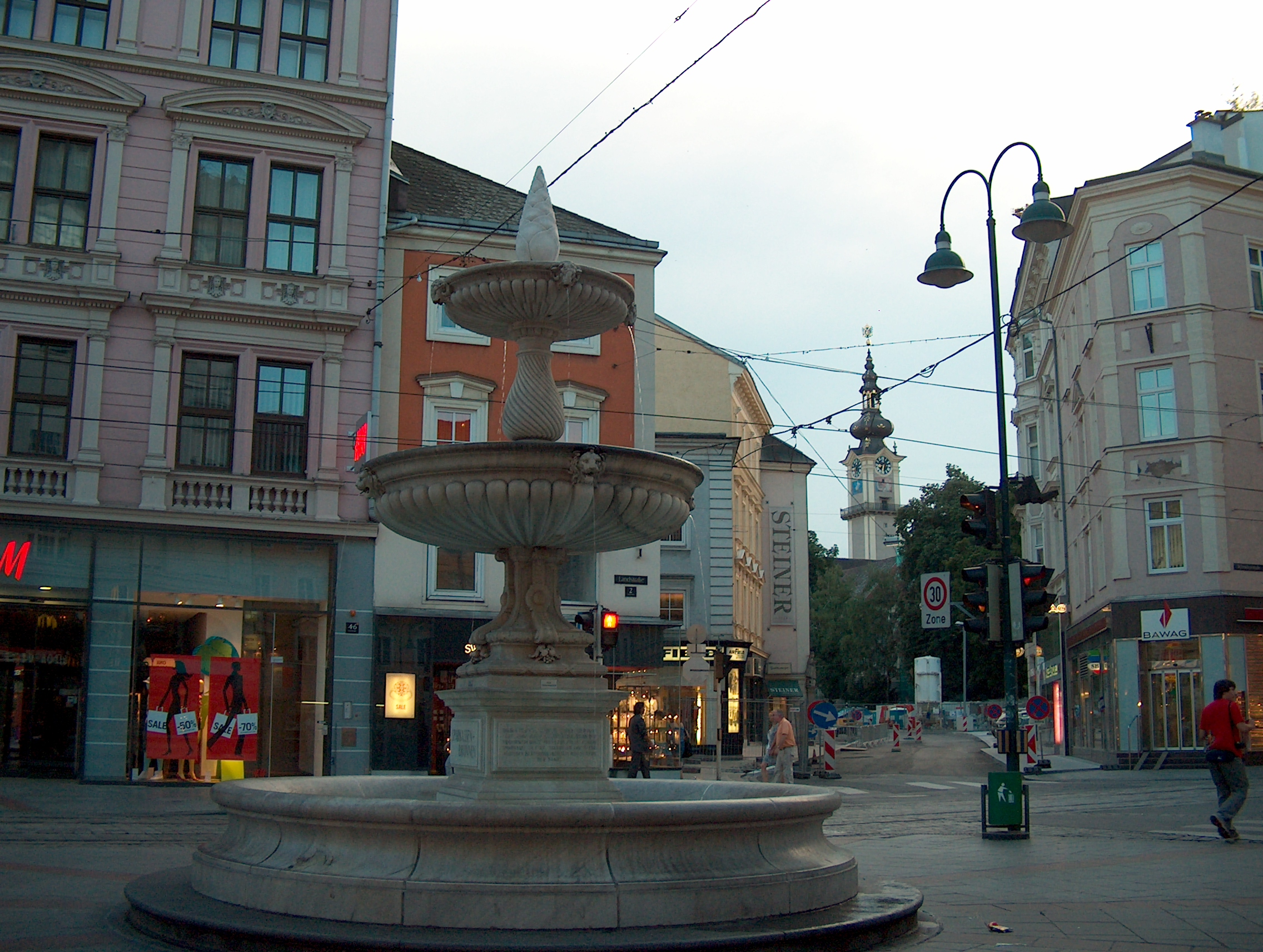 Linz - Taubenmarkt and Promenade